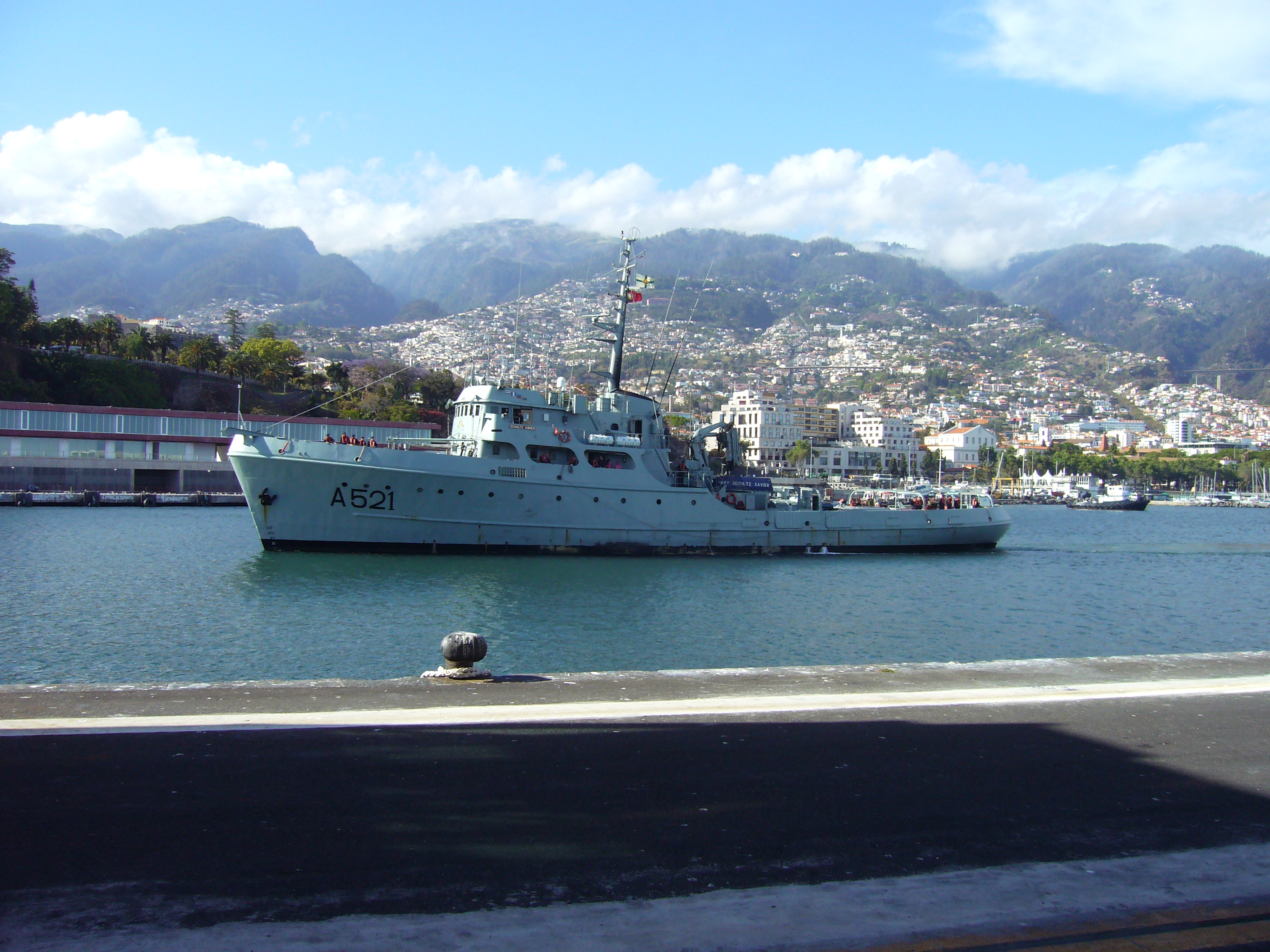 NRP Schultz Xavier enters the port of Funchal - May 2012